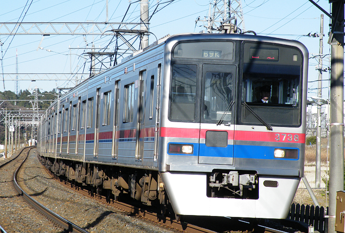 Keisei 3700 series EMU 2nd-batch set near Sogo-Sando Station in Japan